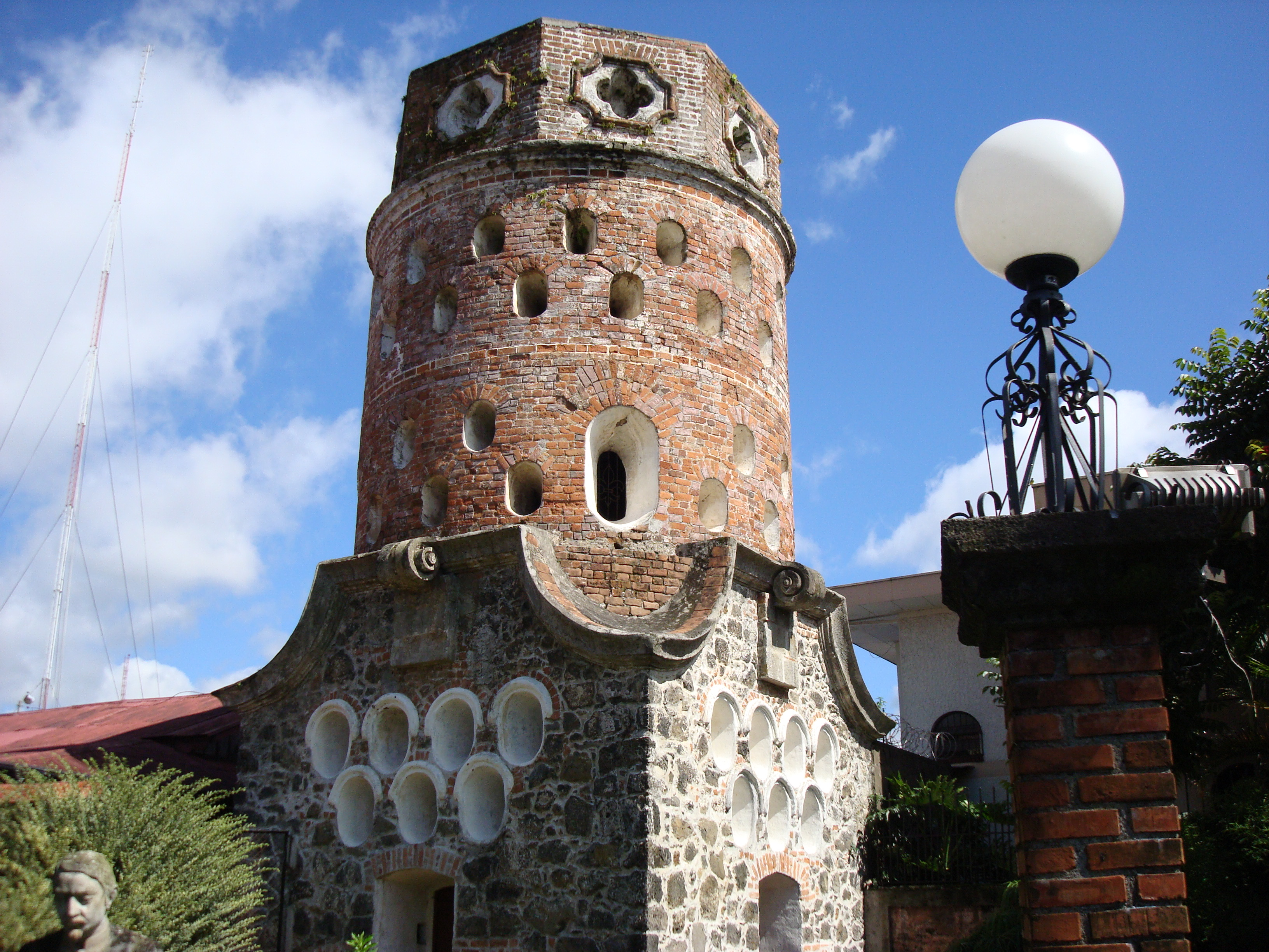 Fortín